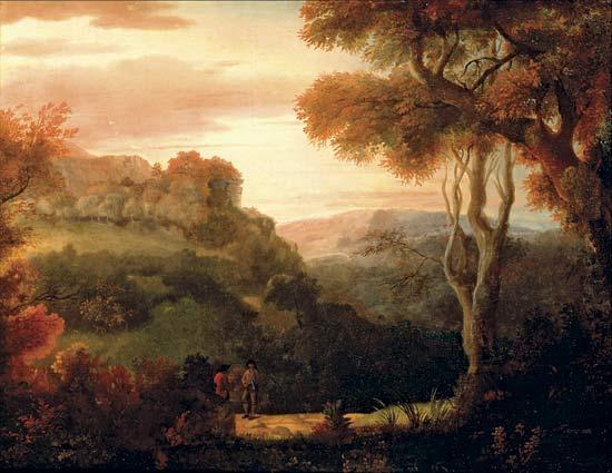 Vale Near Matlock by Alexander Cozens (who influenced Joseph Wright)